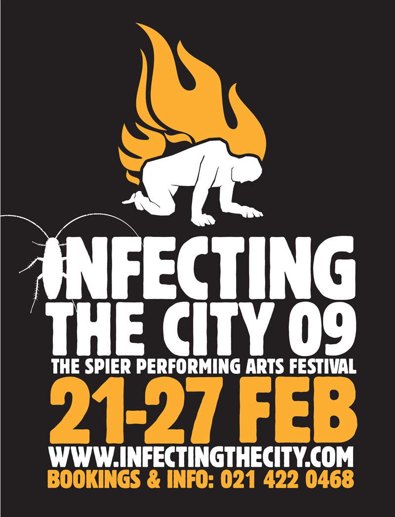 This is the poster for Infecting the City 2009 depicting the Home Affairs emblem.